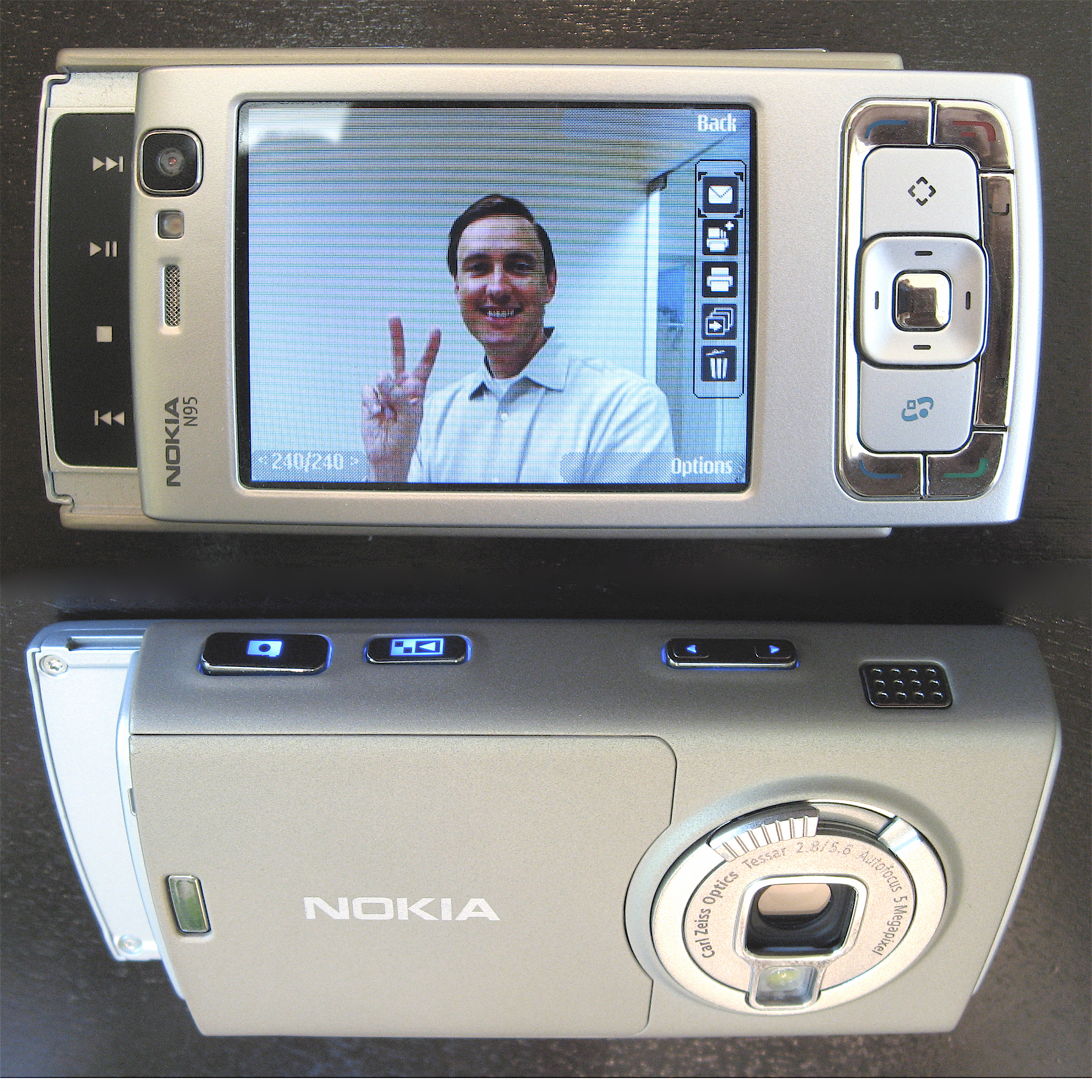 The N95 should be shipping next quarter in the U.S. With a 5MP auto-focus camera, Nokia has a clever solution to the user ergonomics in the different modes of use. There are three different ways to hold the N95 with button placement to match: 1) camera mode. It feels like a normal pocket cam, held horizontally. On the bottom camera image, the slider would actually be pushed in flush, and the blue shutter button is on the top right where you would expect it with a camera. 2) media playback mode: the top camera image shows the slider face that reveals the nav buttons for a side grip 3) telephone use: not shown here. The slider face can slide on its rails off to the left (as well the right) to reveal the dialpad, oriented for a vertical hold of the phone. 2007-2008 should see a flurry of higher quality cameras in phones. In the slim form factors, 3MP with autofocus should lead, and then shutters, zoom and image stabilization will follow.